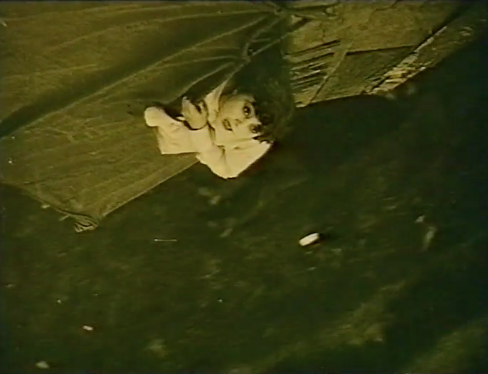 Annie Bos in 'Het geheim van Delft' (1917)